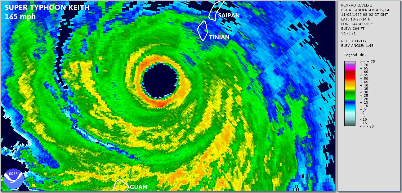 NEXRAD Radar Image of Super Typhoon Keith as it passes between Rota and Tinian in the Mariana Islands. Winds were sustainted at 160-165 mph during its passage